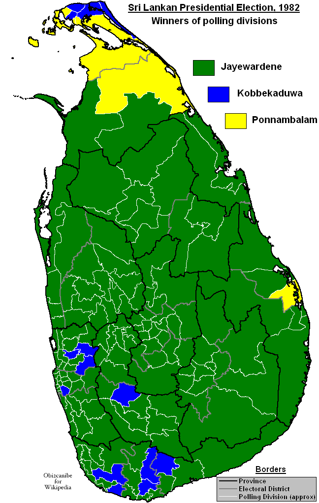 Map showing winners of polling divisions in the Sri Lankan presidential election of 1982.